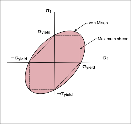 2D Tresca and Von-Mises failure criteriae